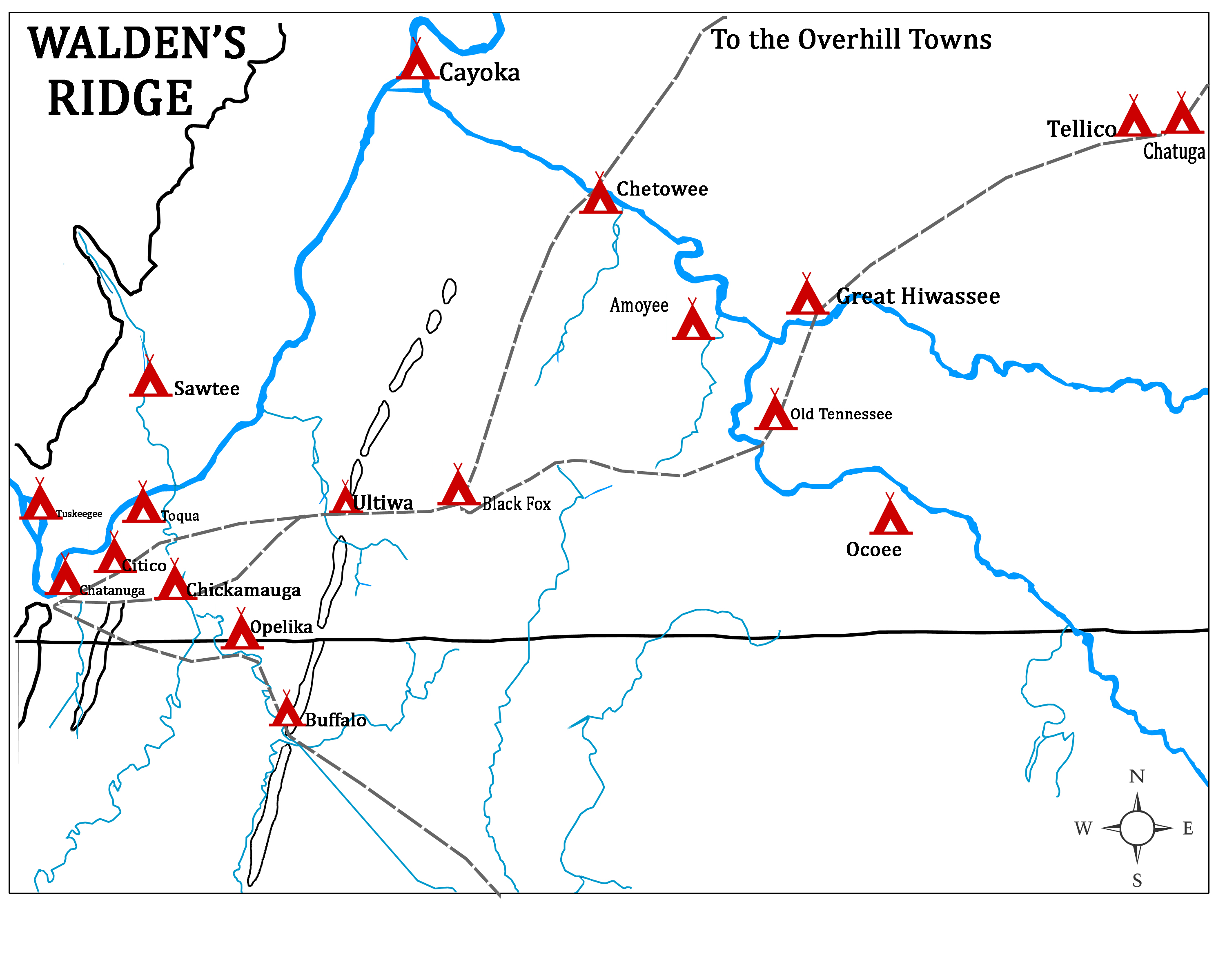 The towns in the Chickamauga, Hiwassee, and Tellico areas